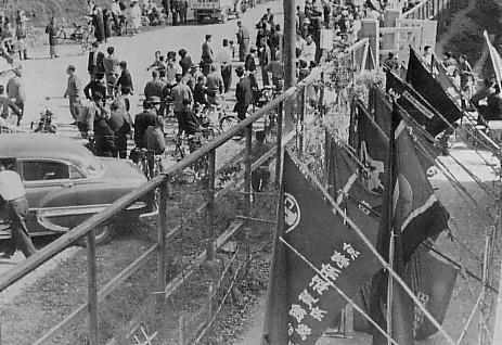 Asahigaoka Junior High School Incident